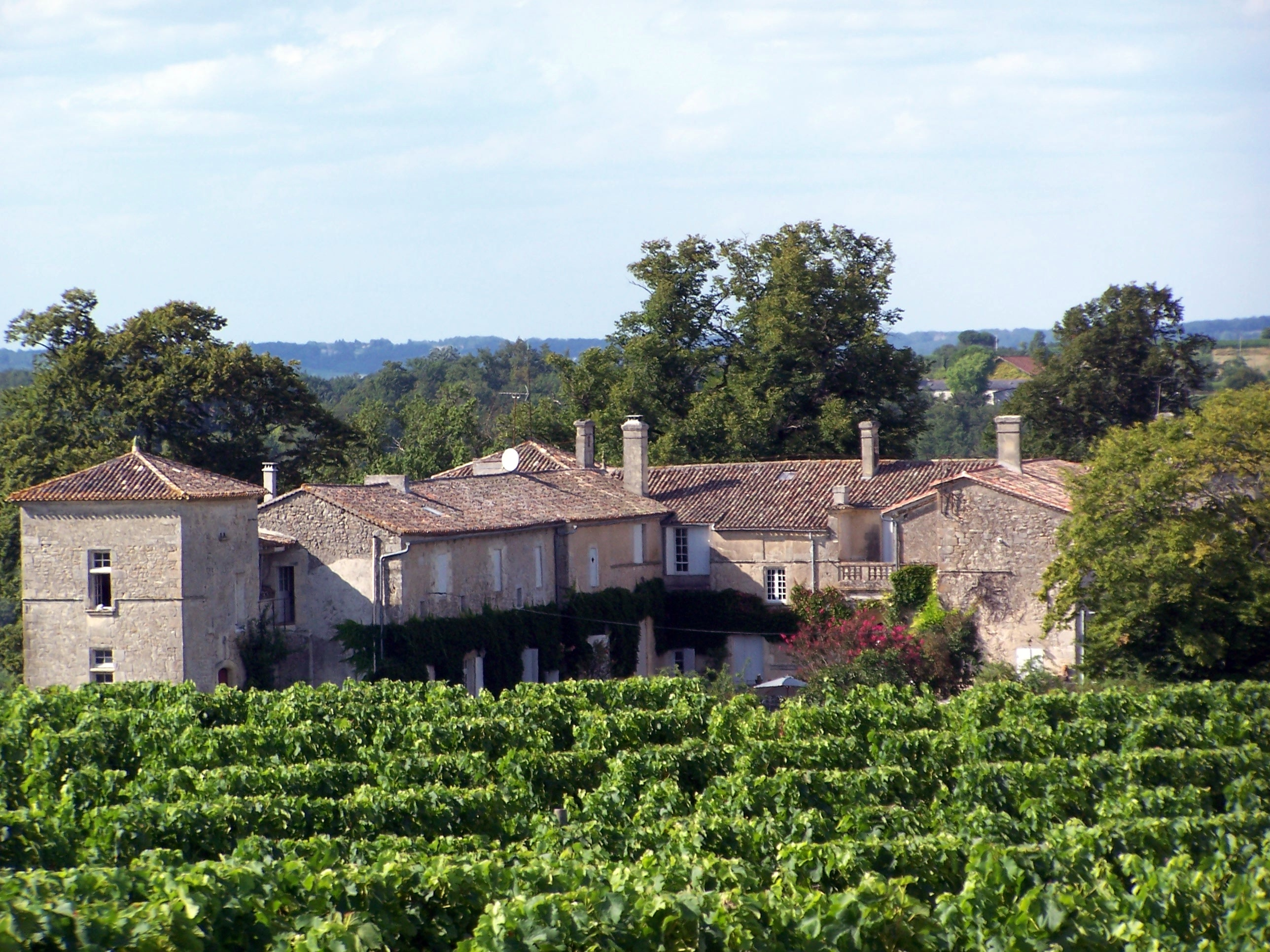 Castle of Vaure in Ruch (Gironde, France)